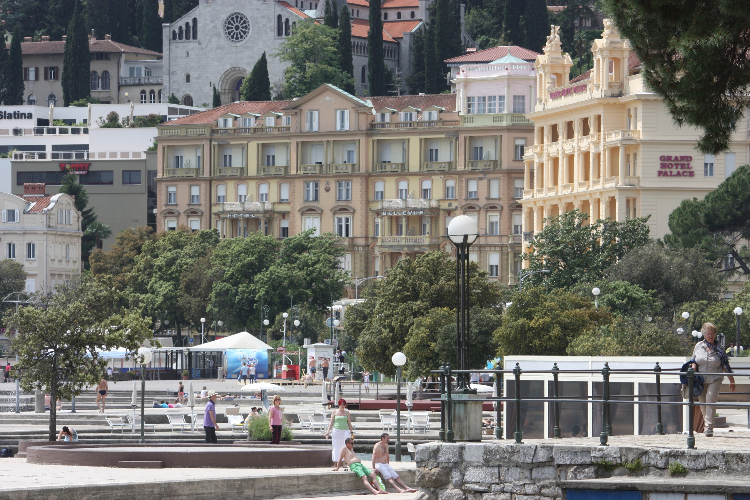 Opatija, the hotels Bellevue and Grand Hotel Palace